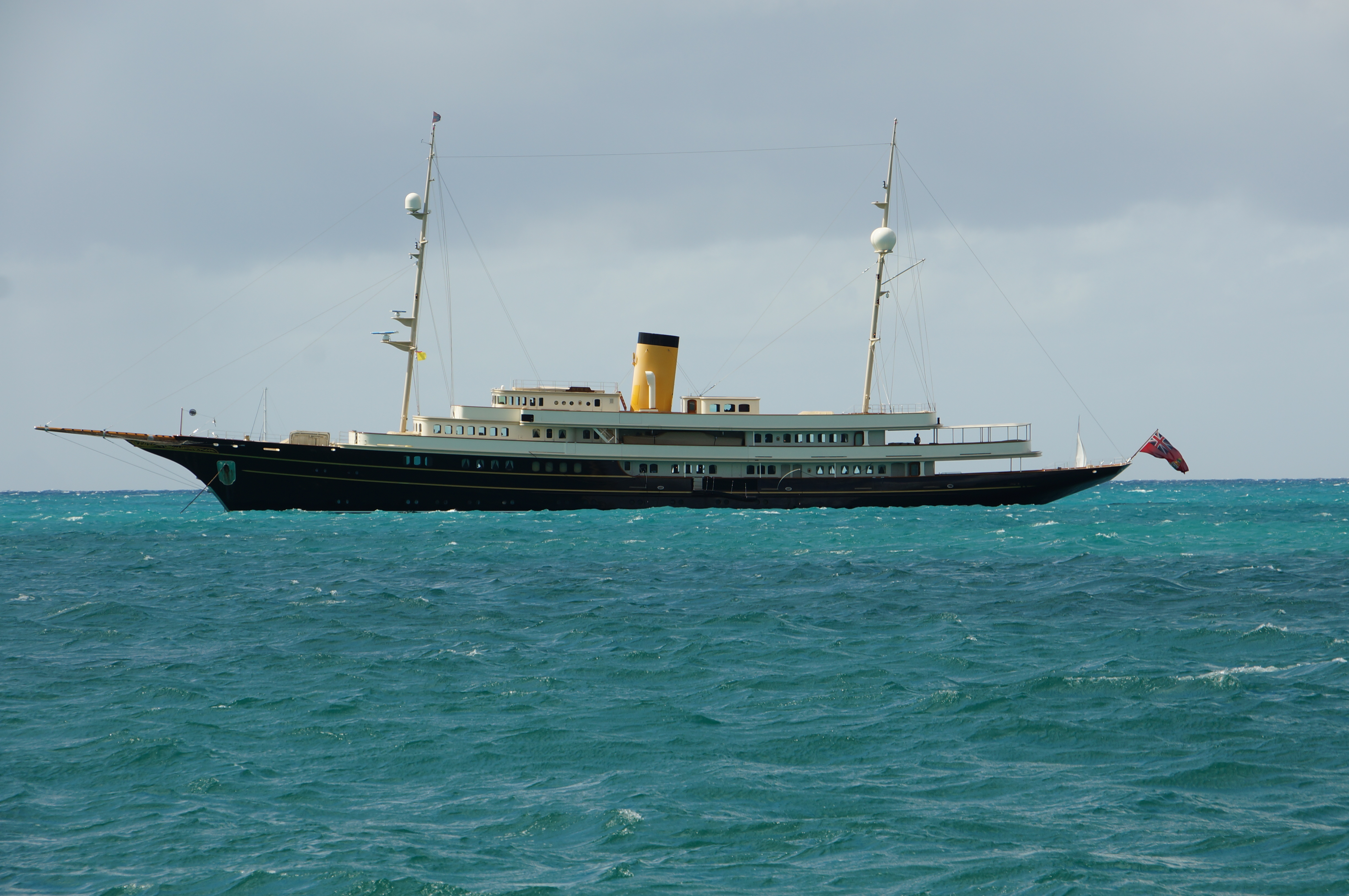 Yacht Nero, taken in Simpsons Bay, St. Maarten March 5th 2015